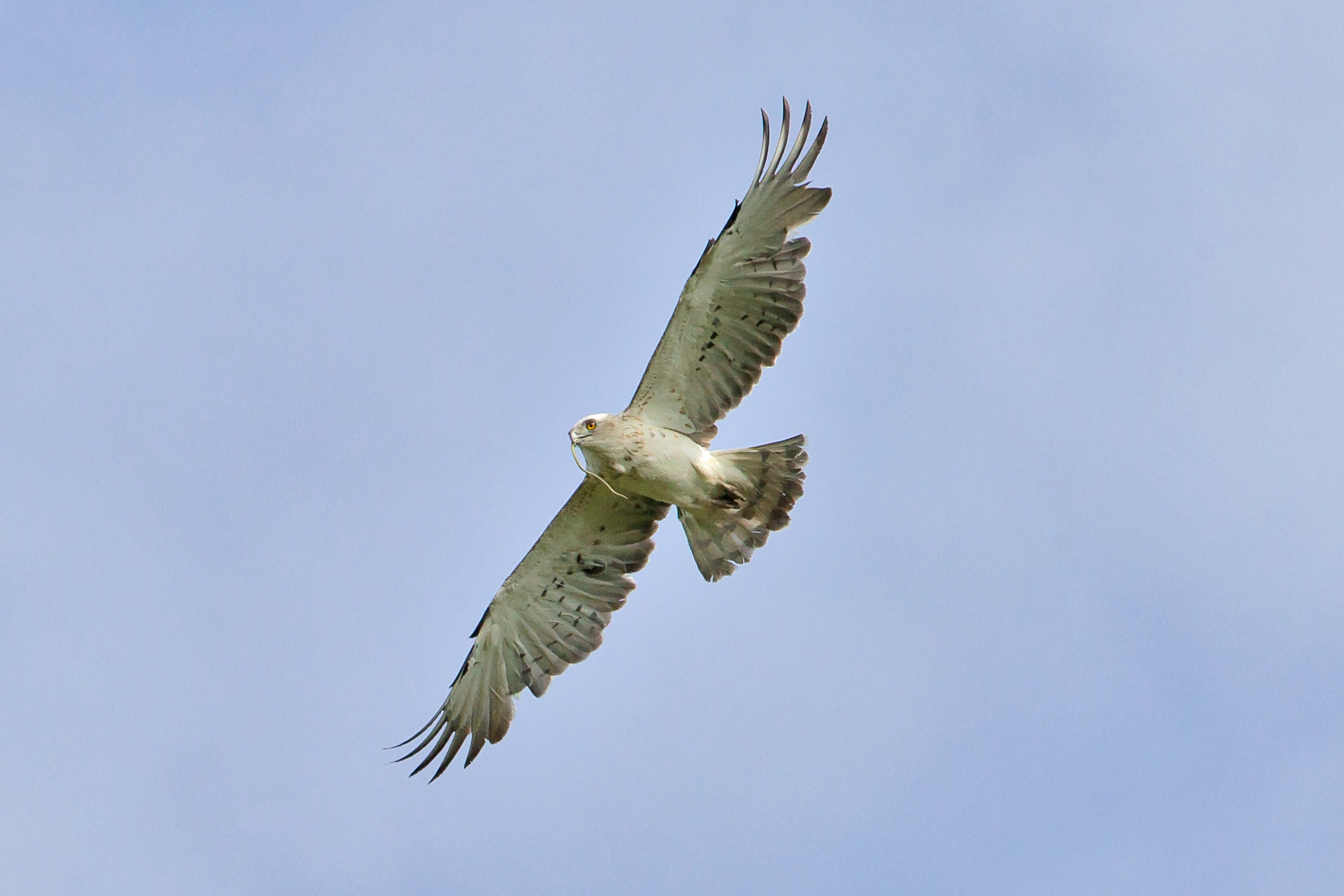 Circaetus gallicus : a snake eagle swallows a prey while flying